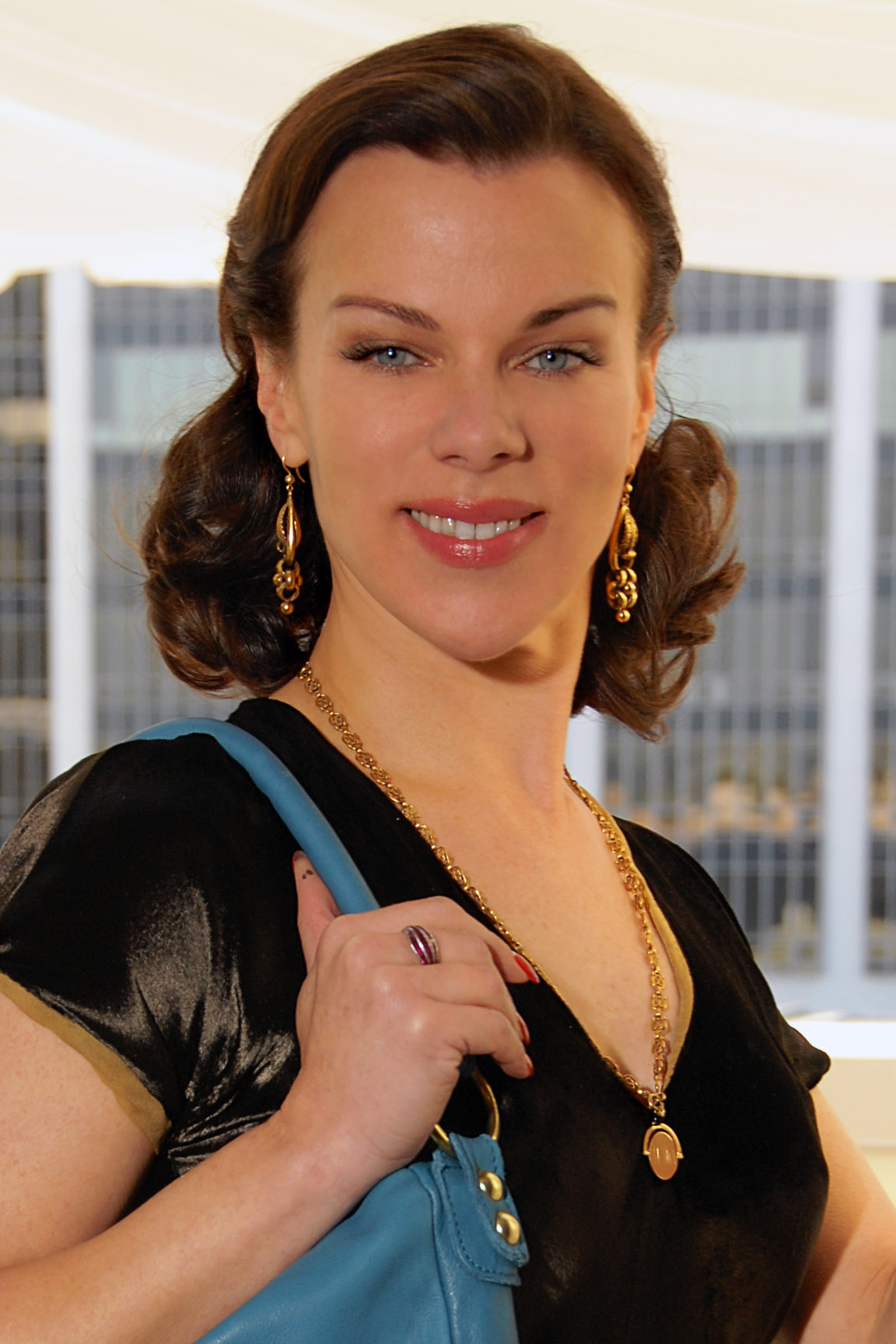 Debi Mazar, Beverly Hills, CA on December 4, 2009 - Photo by Glenn Francis of